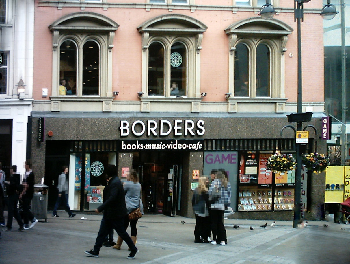 Borders on Briggate in Leeds, West Yorkshire, UK. Taken on the evening of the 2nd May 2009.